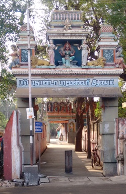 KumbakonamPadithandaparameswari temple கும்பகோணம் படிதாண்டா பரமேஸ்வரிகோயில்